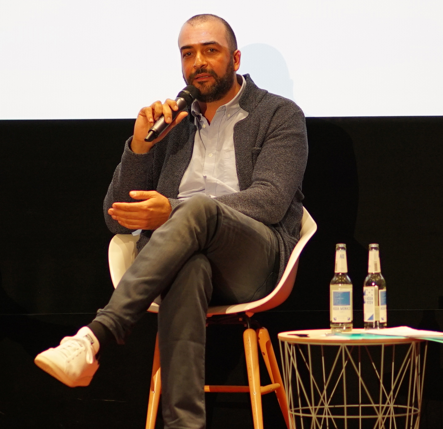 Sascha El Waraki at the Seriencamp 2017 in Munich.